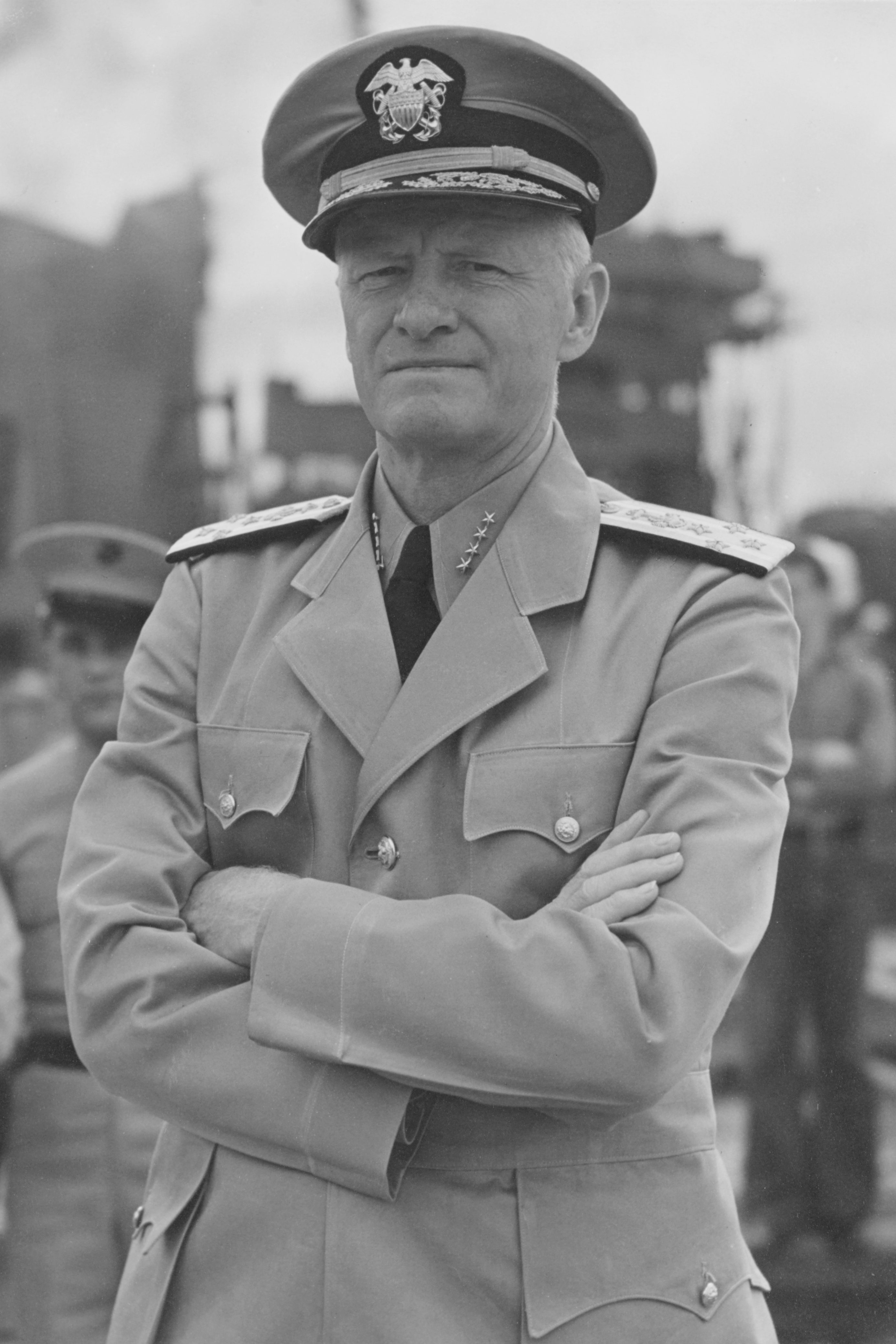 Admiral Chester W. Nimitz. Photographed circa 1942.